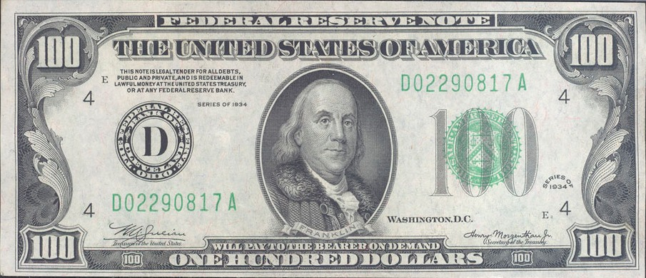 Obverse of 100 dollar bill series 1934